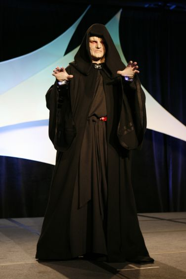 Photo by Scott Ruether. Read more at the Official Celebration IV blog. Costumes at Star Wars Celebration IV in 2007 at the Los Angeles Convention Center in Los Angeles.